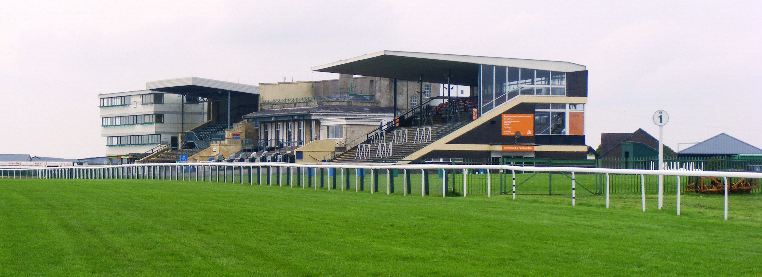 The stands at Bath Rececourse